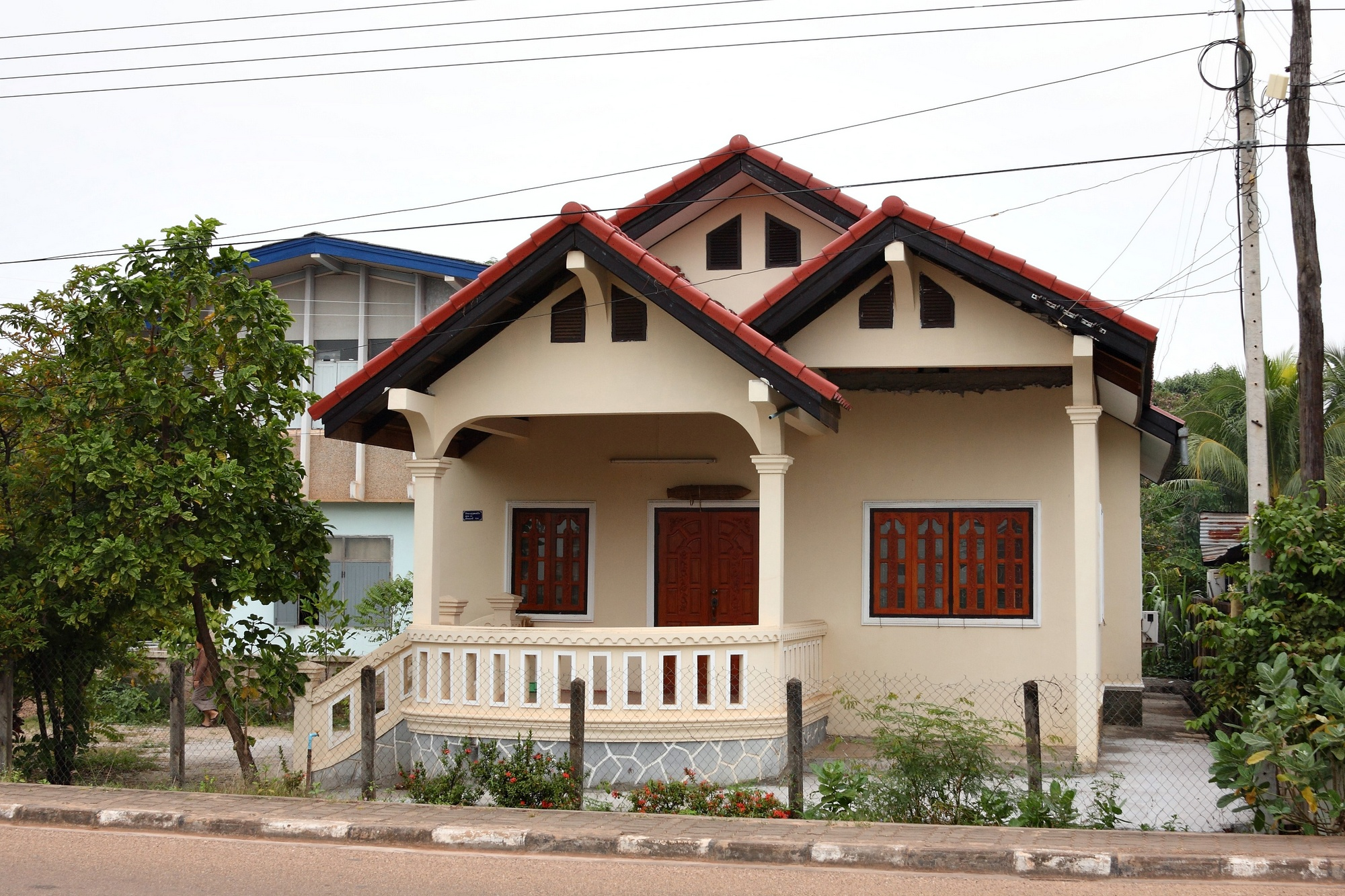 House in Savannakhet, Laos